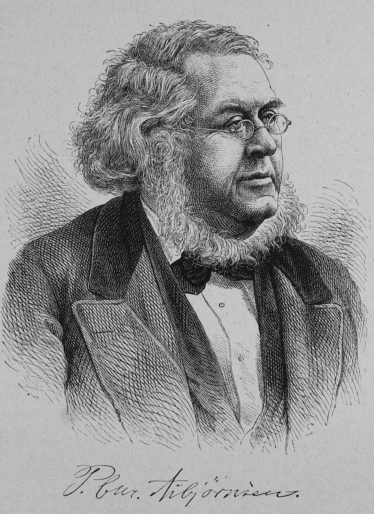 no caption